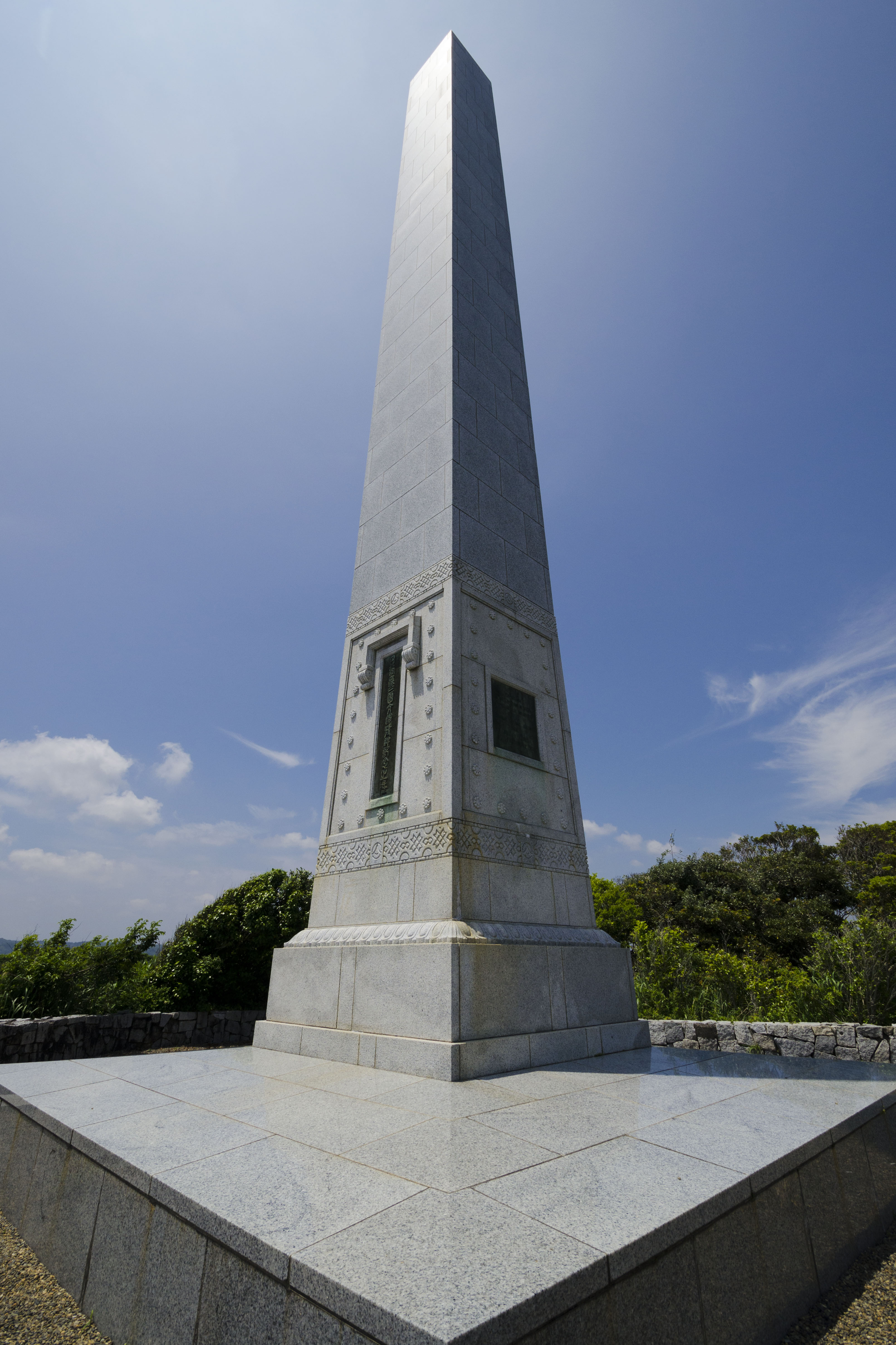 Japan, Spain and Mexico," the three countries traffic originated monument.